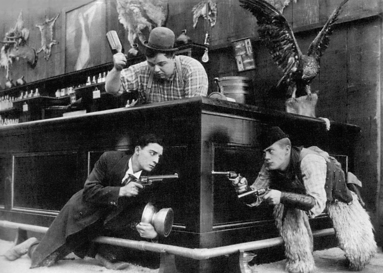 Still from the film Out West from 1918, directed by Roscoe 'Fatty' Arbuckle and starring Arbuckle, Buster Keaton and Al St. John